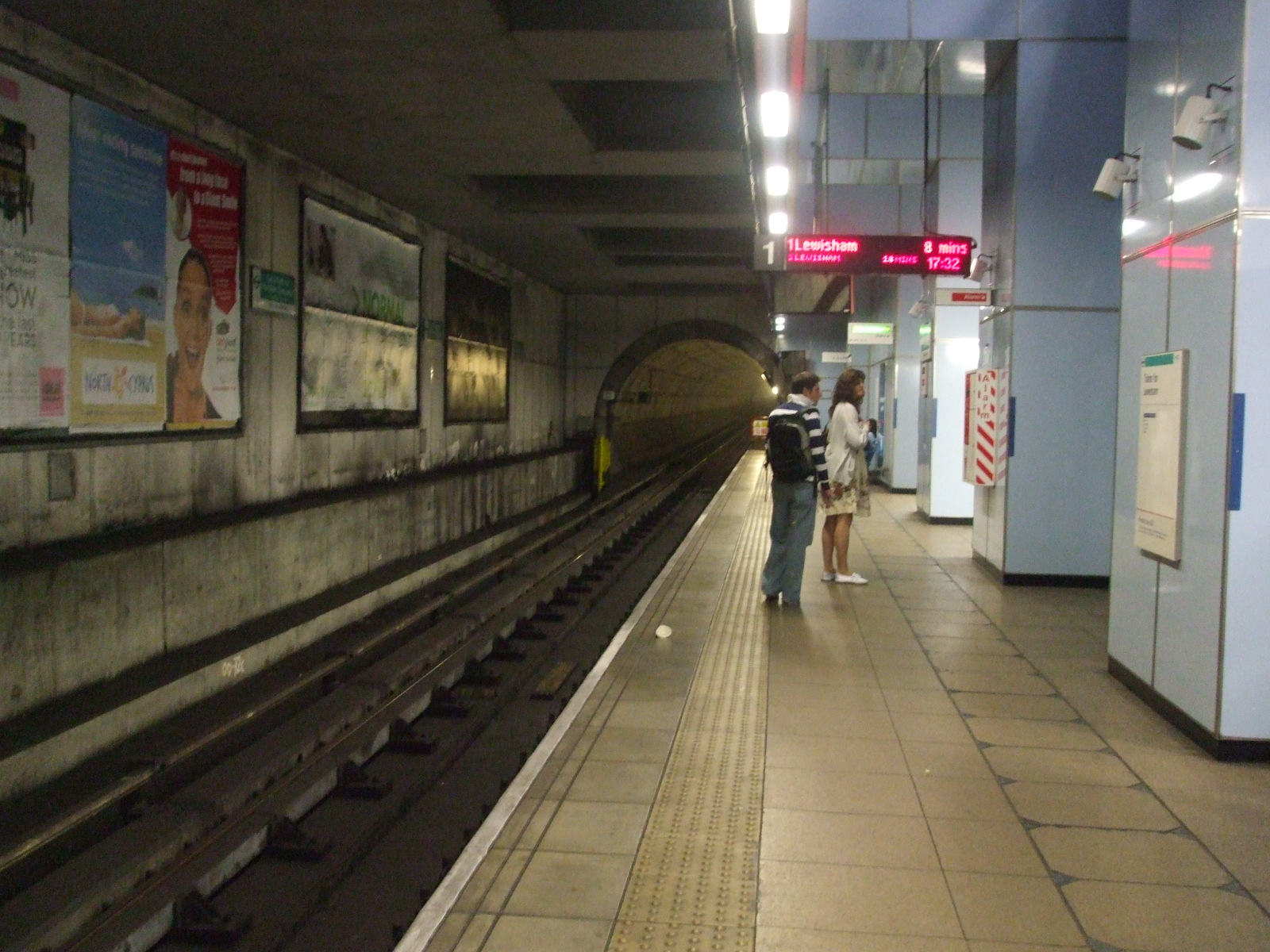 Southbound platform at Cutty Sark DLR station looking south